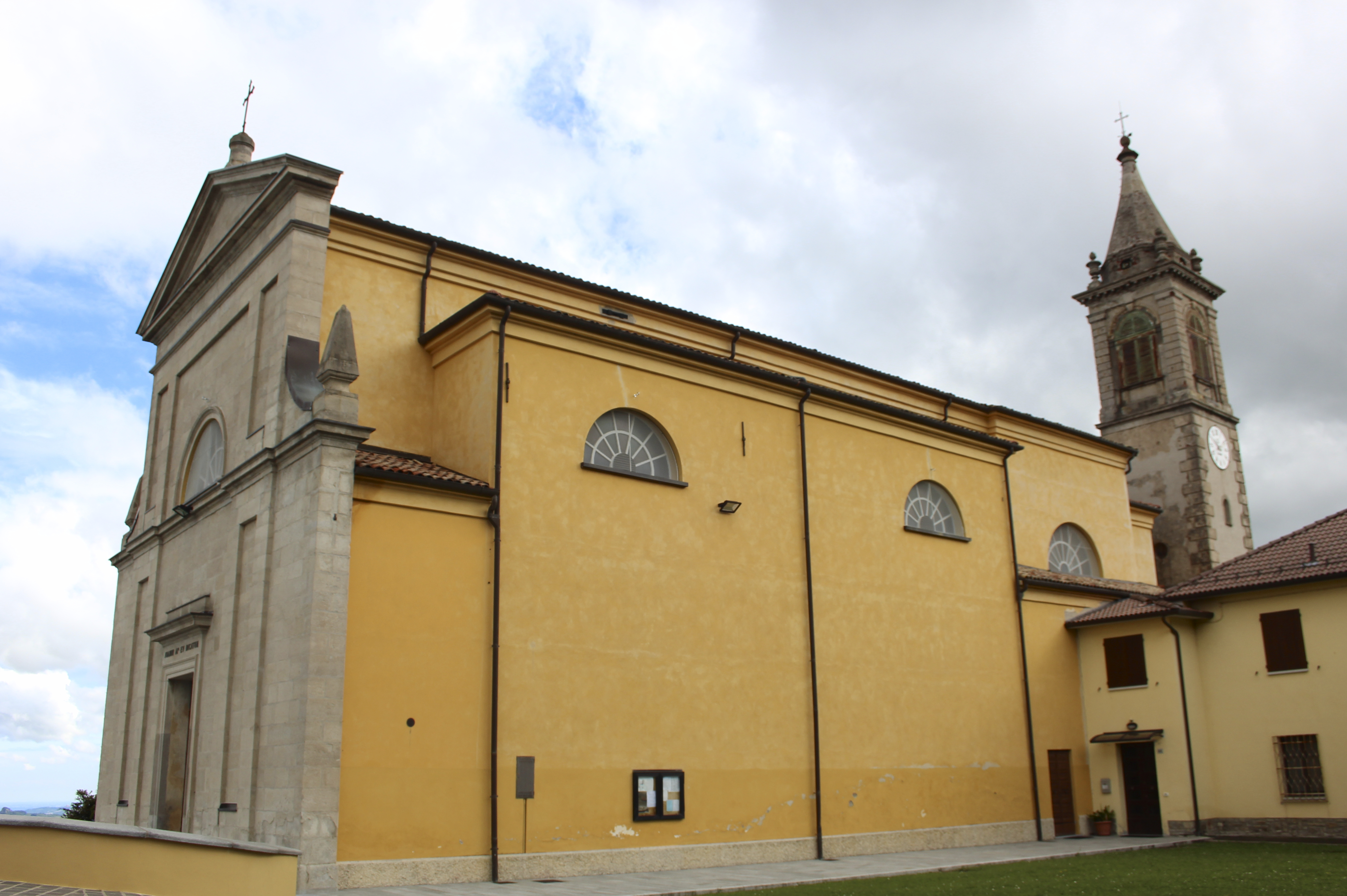 Church San Giovanni Evangelista, Monzuno, metropolitan city of Bologna, Emilia-Romagna, Italy